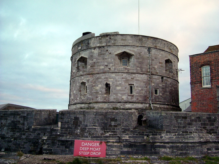 Calshot Castle, Hampshire.